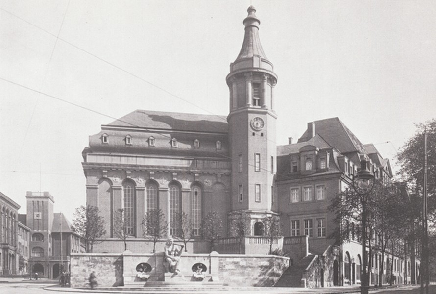 Old Catholic Church of Peace in Essen, Germany